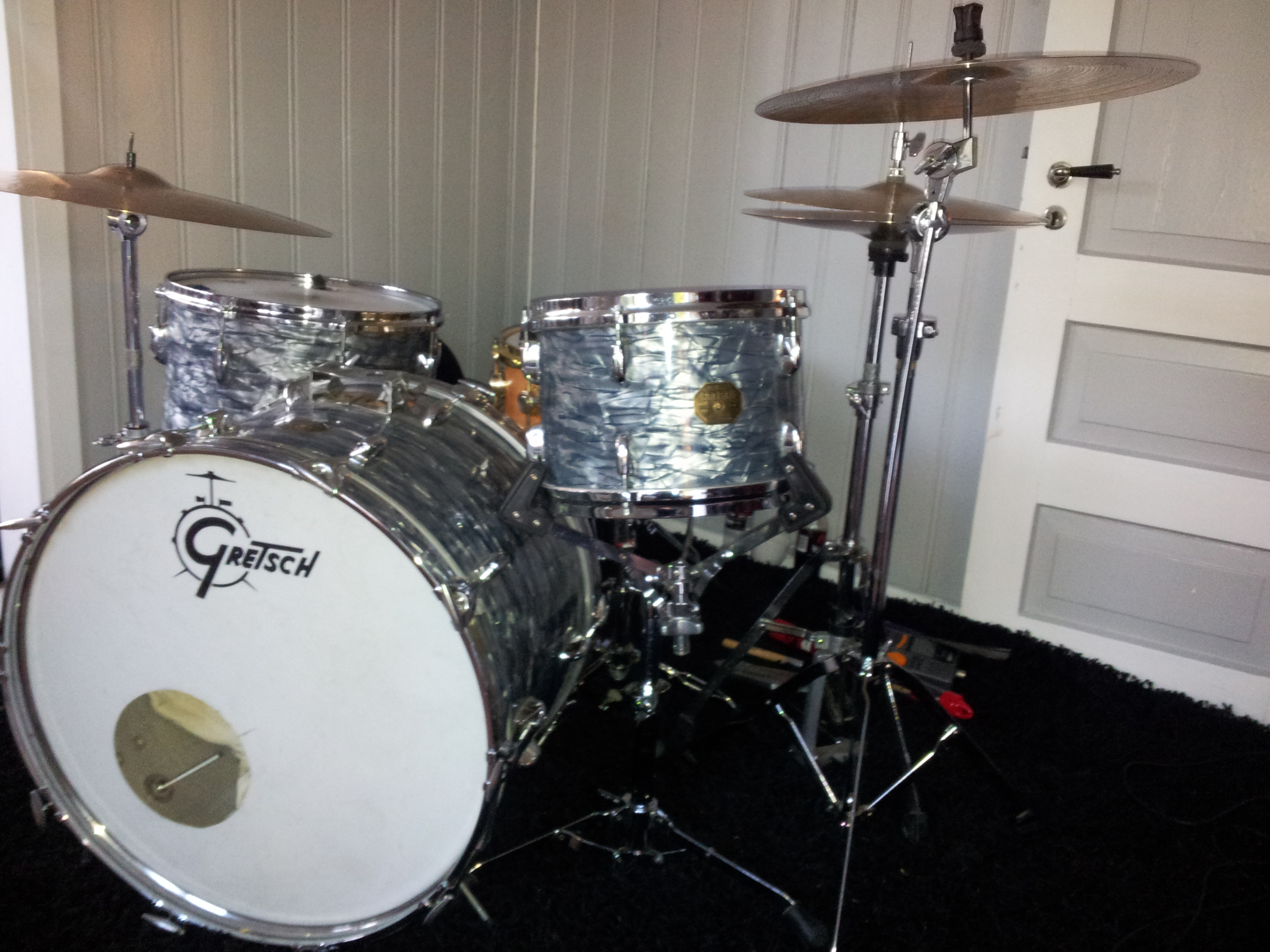 Gretsch drumsNorsk bokmål: trommesett trommer Gretsch